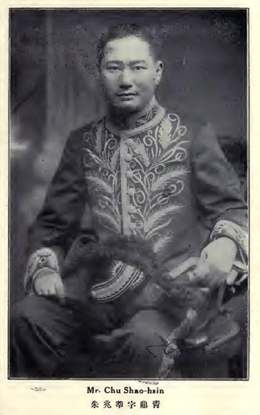 Zhu Zhaoshen (1879－1932)